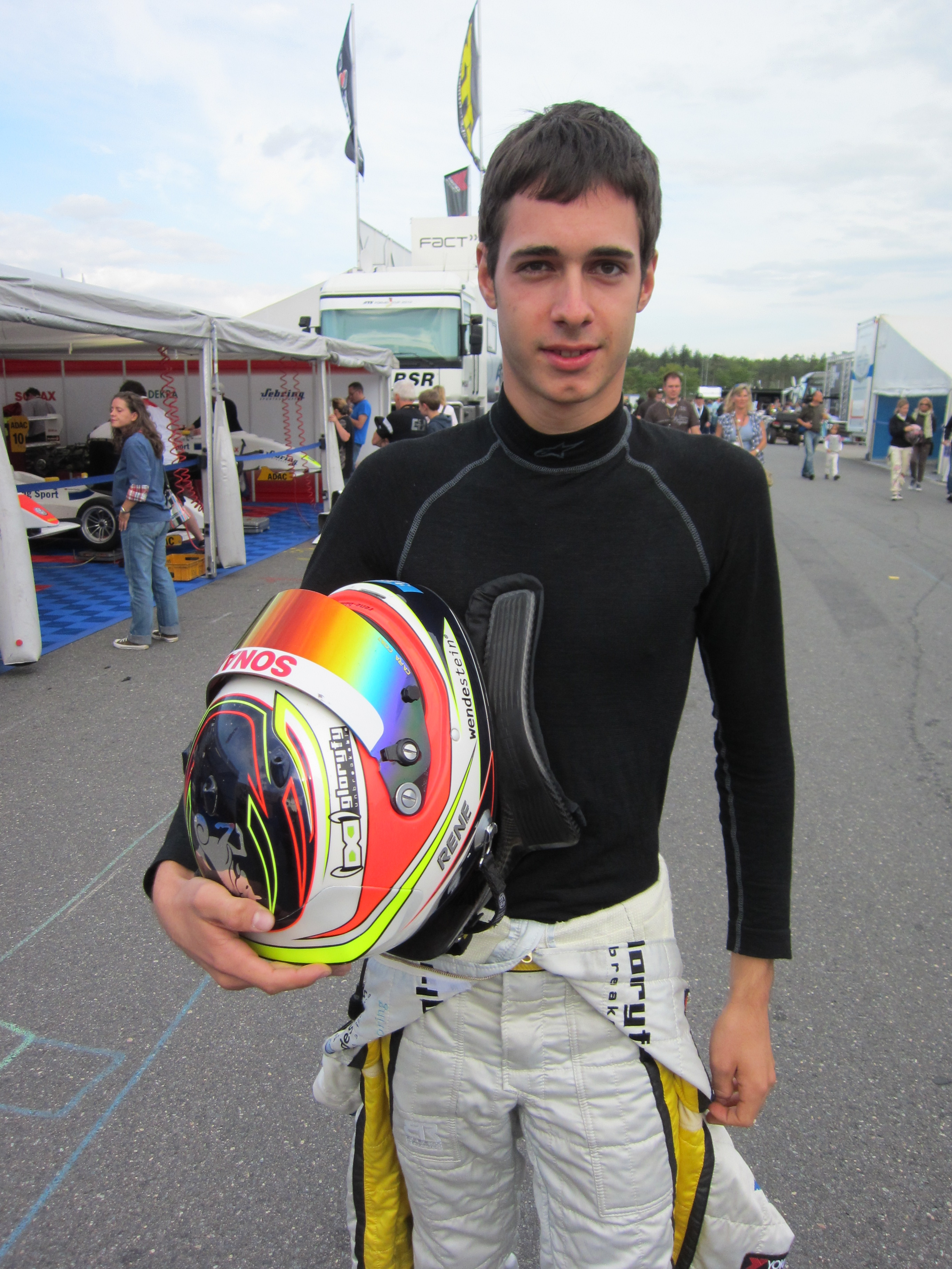 René Binder: the photo was taken during 2012's ADAC GT Masters race weekend at Hockenheim